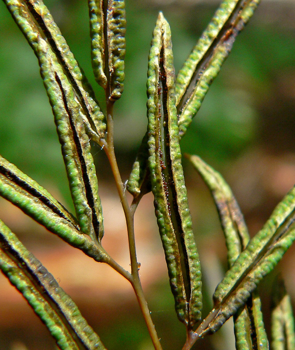 Llavea cordifolia at the University of California Botanical Garden, Berkeley, California